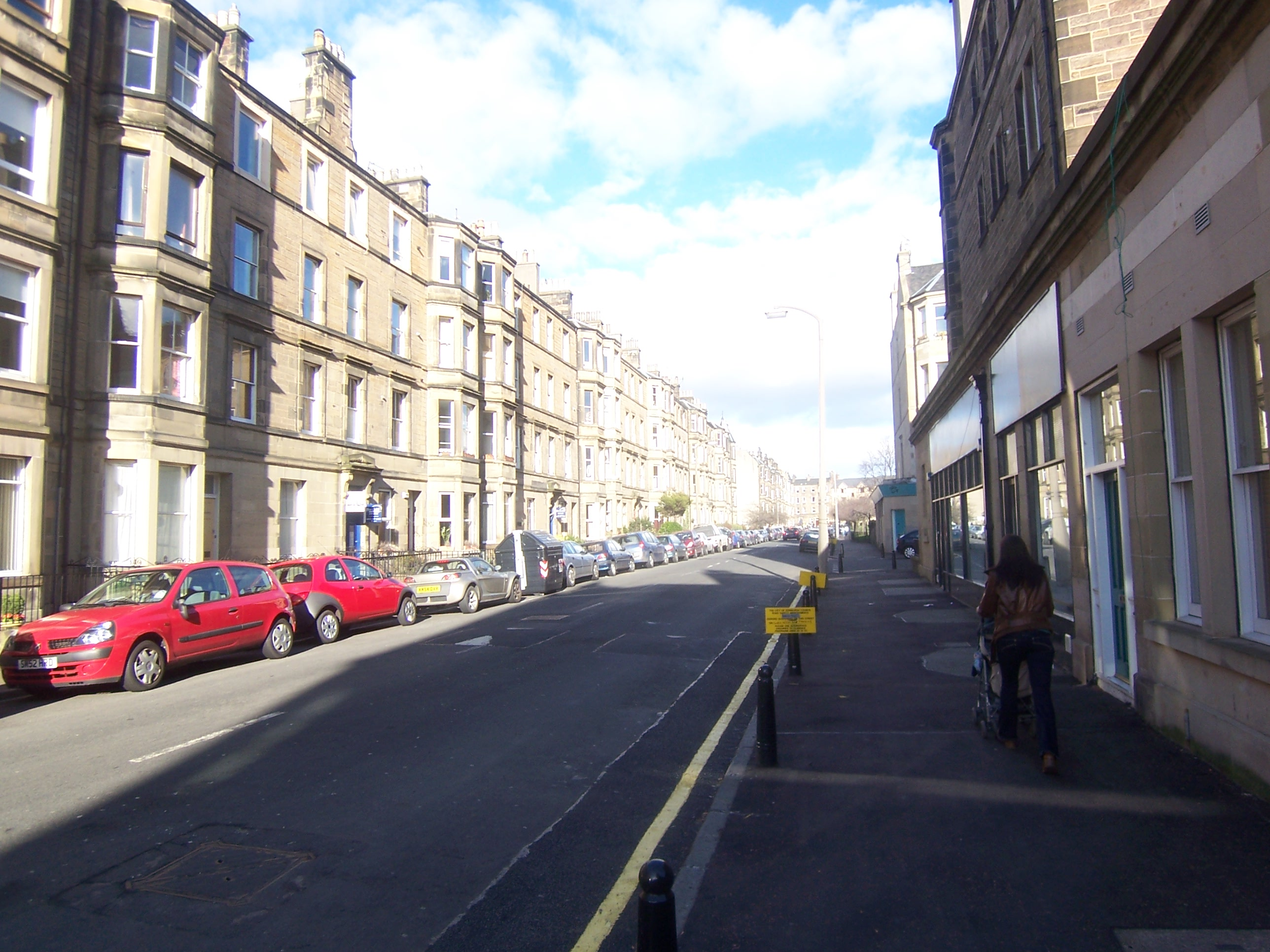 Harrison Gardens, Polwarth, Edinburgh, Scotland.